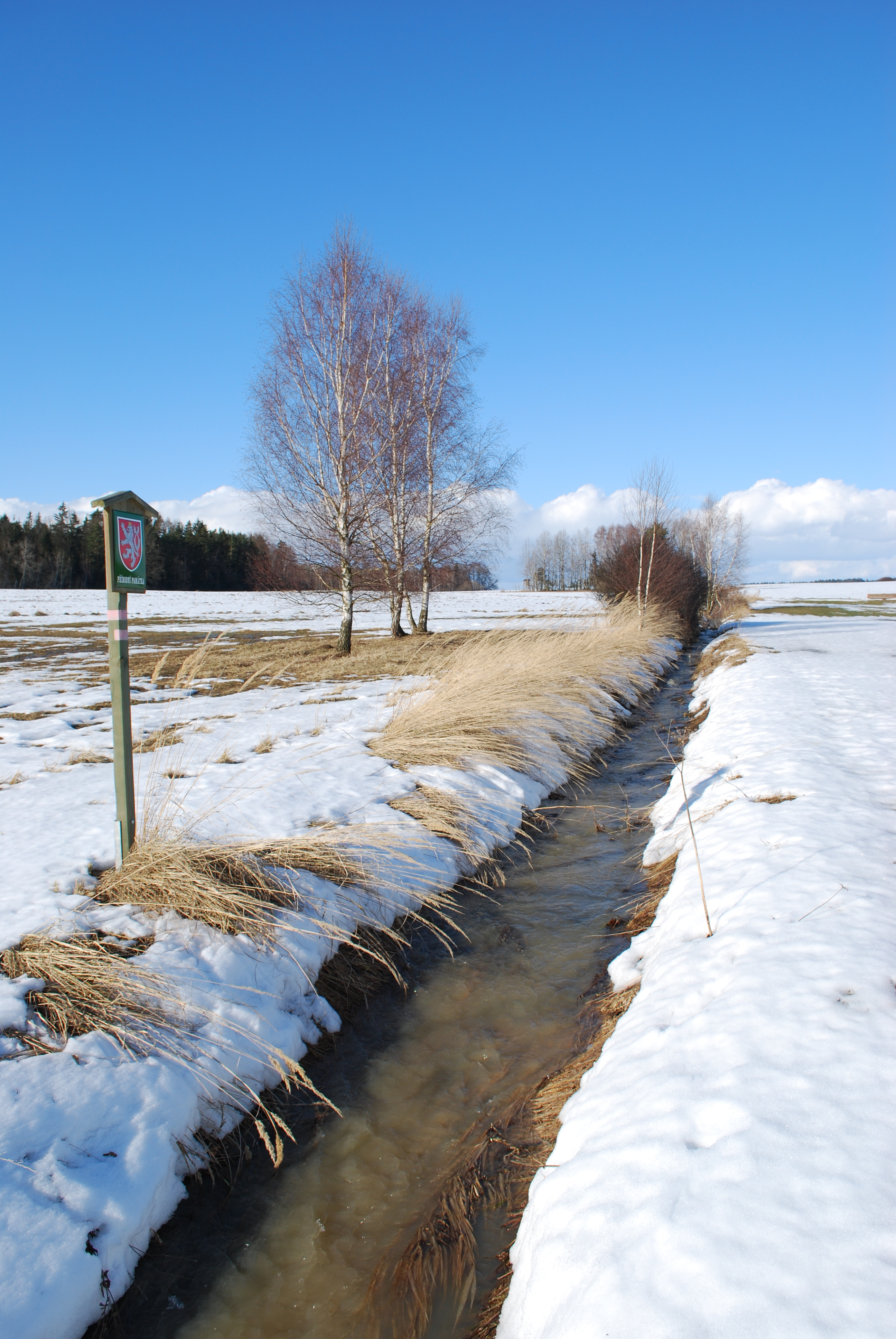 Natural monument Kutiny in Tábor District, Czech Republic This photograph was taken within the scope of the 'Czech Municipalities Photographs' grant. - OpenStreetMap (Info)